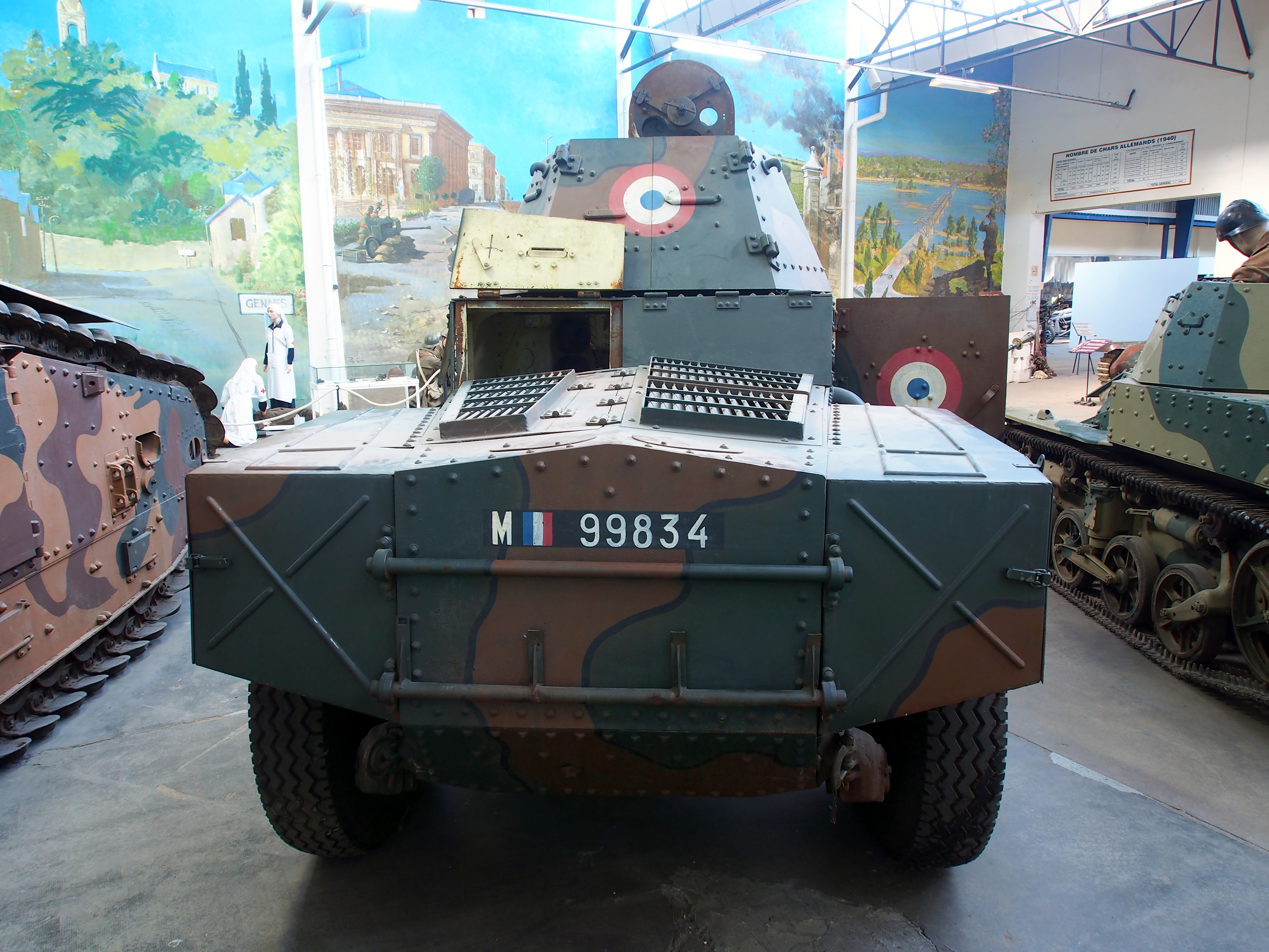 Photographed in the Musée des Blindés, France.